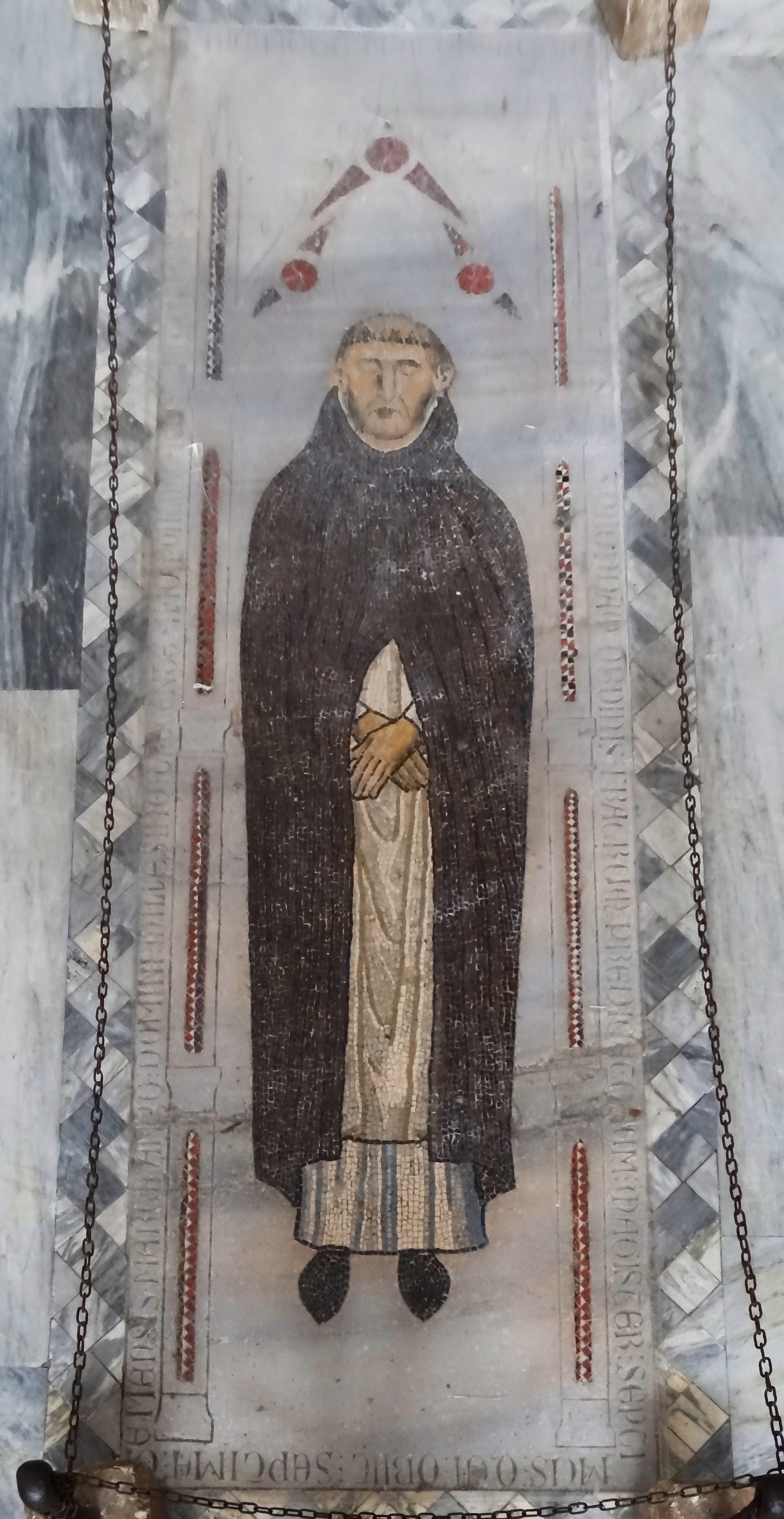 Rome, Santa Sabina, epitaph of Munio de Zamora